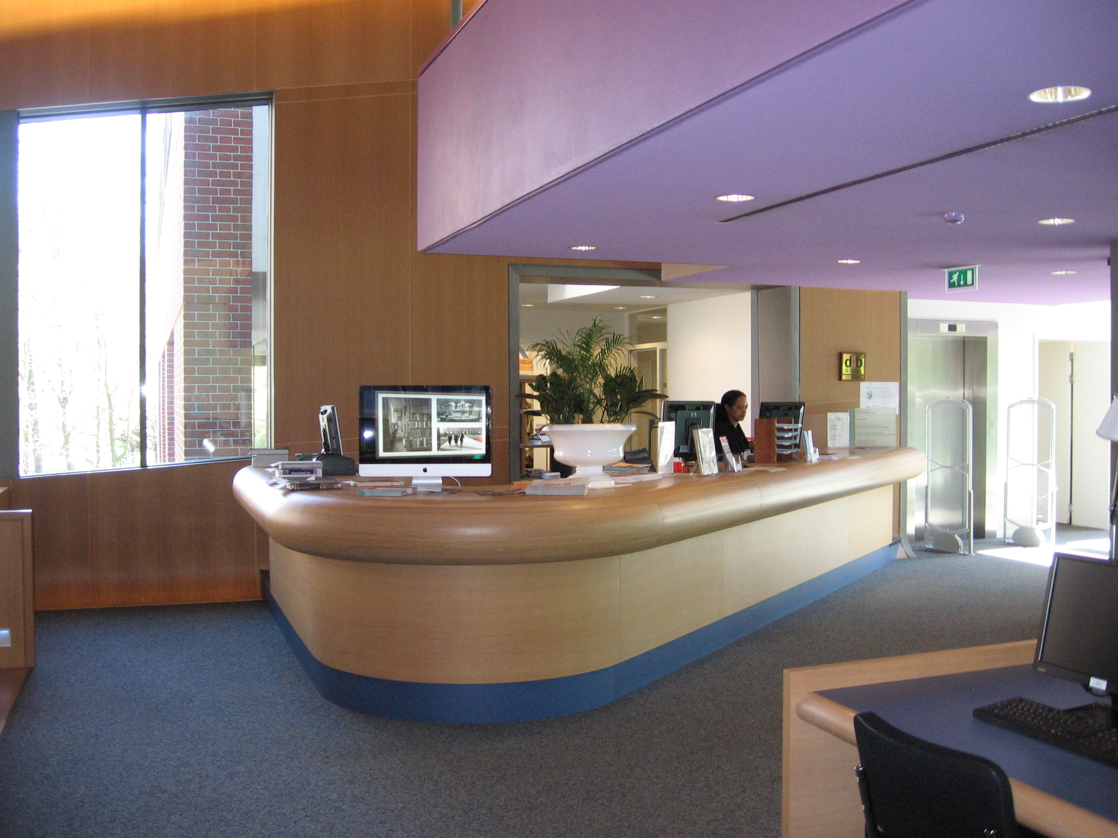 Peace Palace Library, 2014.